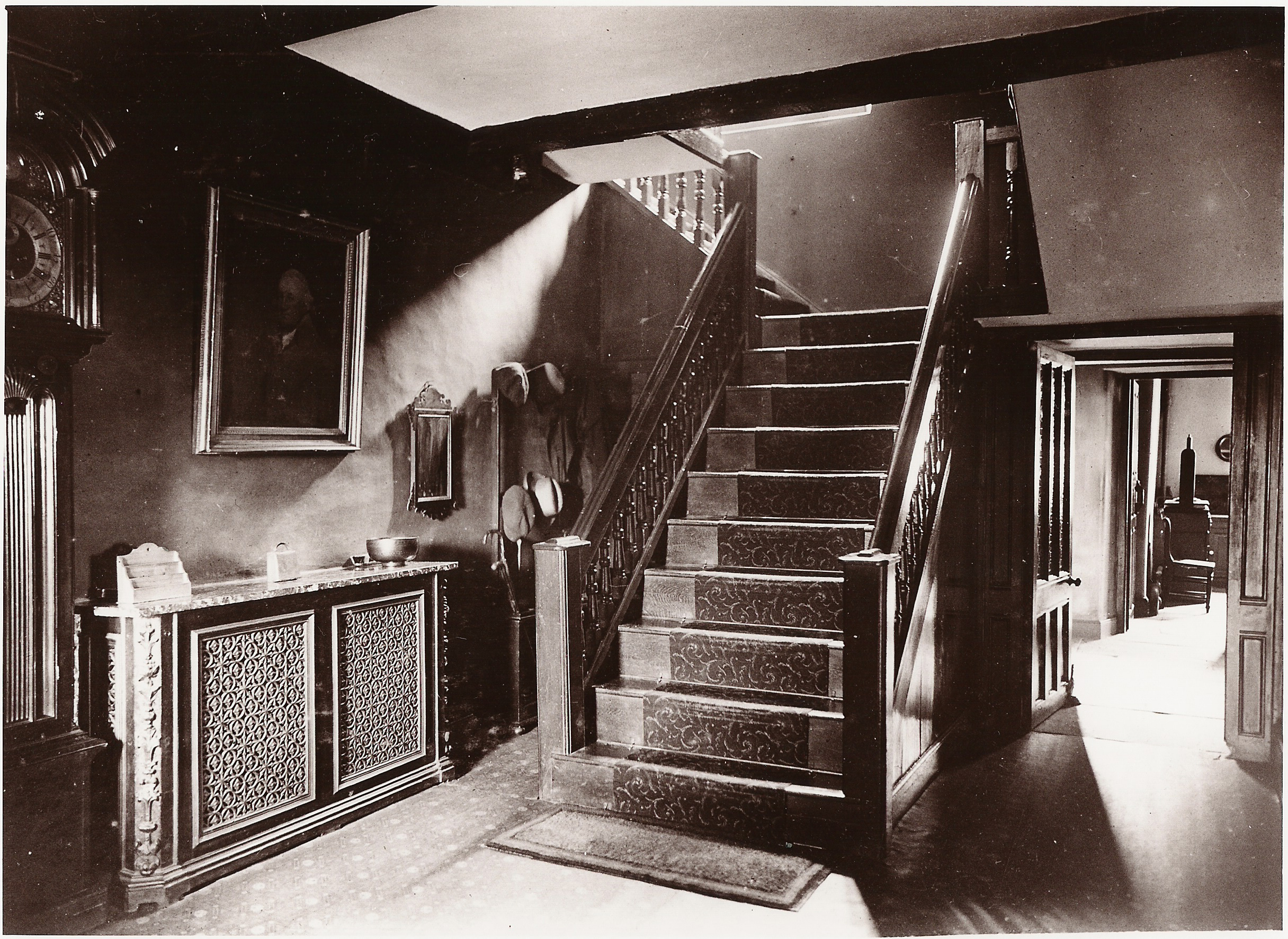 Staircase inside Hollingworth Hall